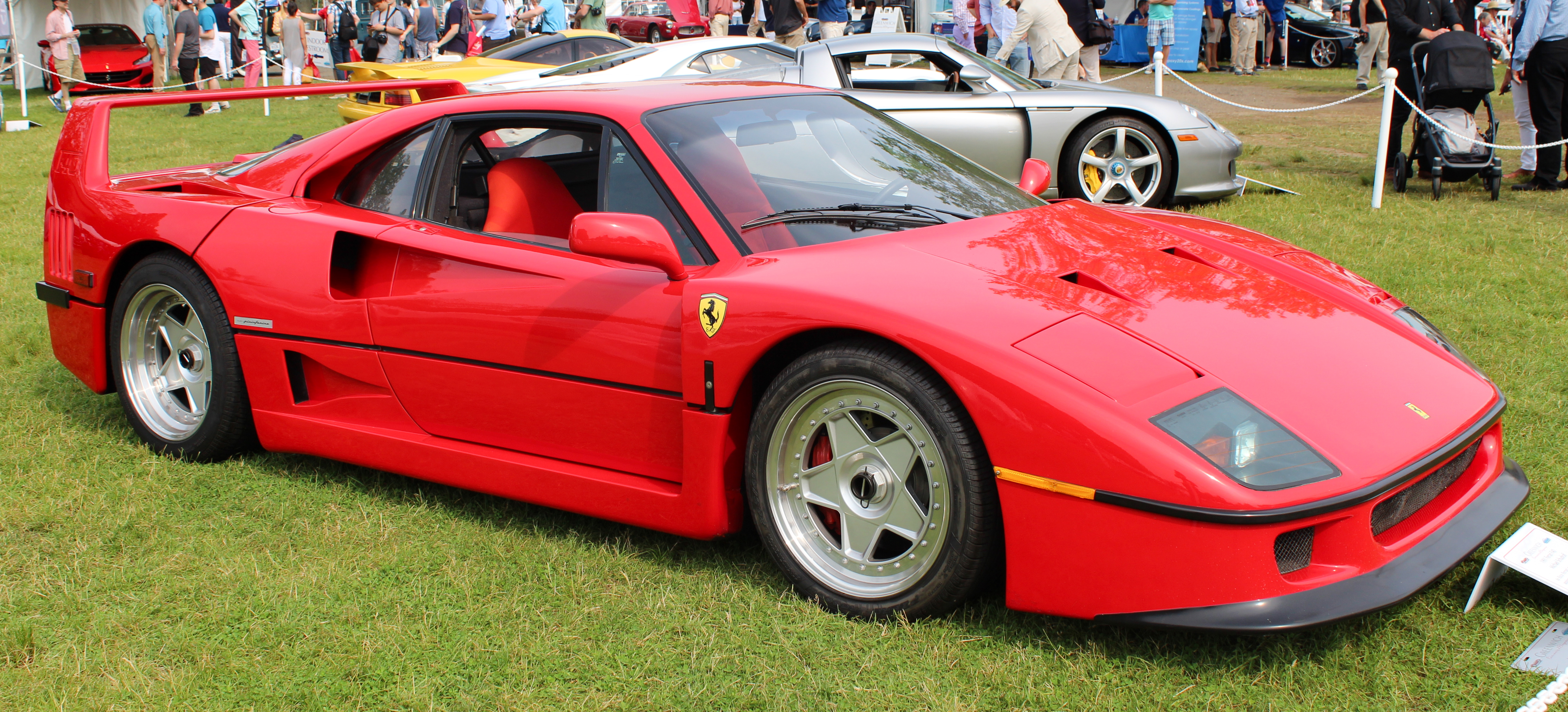 A 1991 Ferrari F40 photographed during the 2019 Greenwich Concours d'Elégance, Connecticut, USA